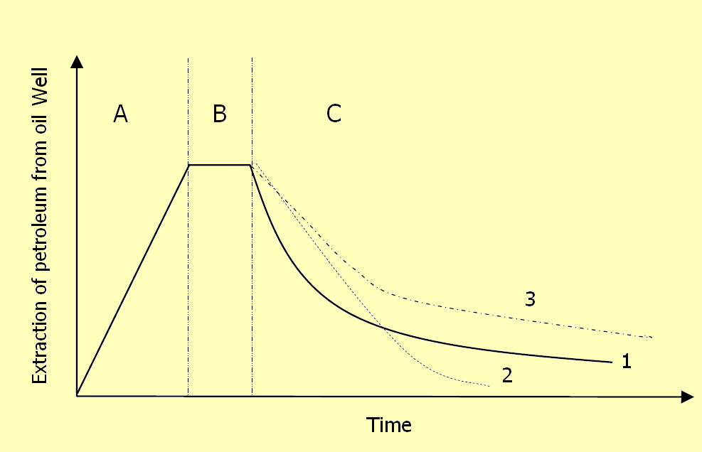 Timeline of Extraction of petroleum from an oil well. A: Field expansion and increasing of extraction rate B: Stablisation of petroleum extraction rate C: Decreasing of petroleum extraction rate due to shortening of field petroleum (requires gas injection) 1: Extracting with reservoir natural capacity. 2: Extracting huge volume of petroleum which might end up rapid shortening of reservoir lifespan. 3: Extracting in small volume prolongs the reservior lifespan and makes extraction in far future more possible.